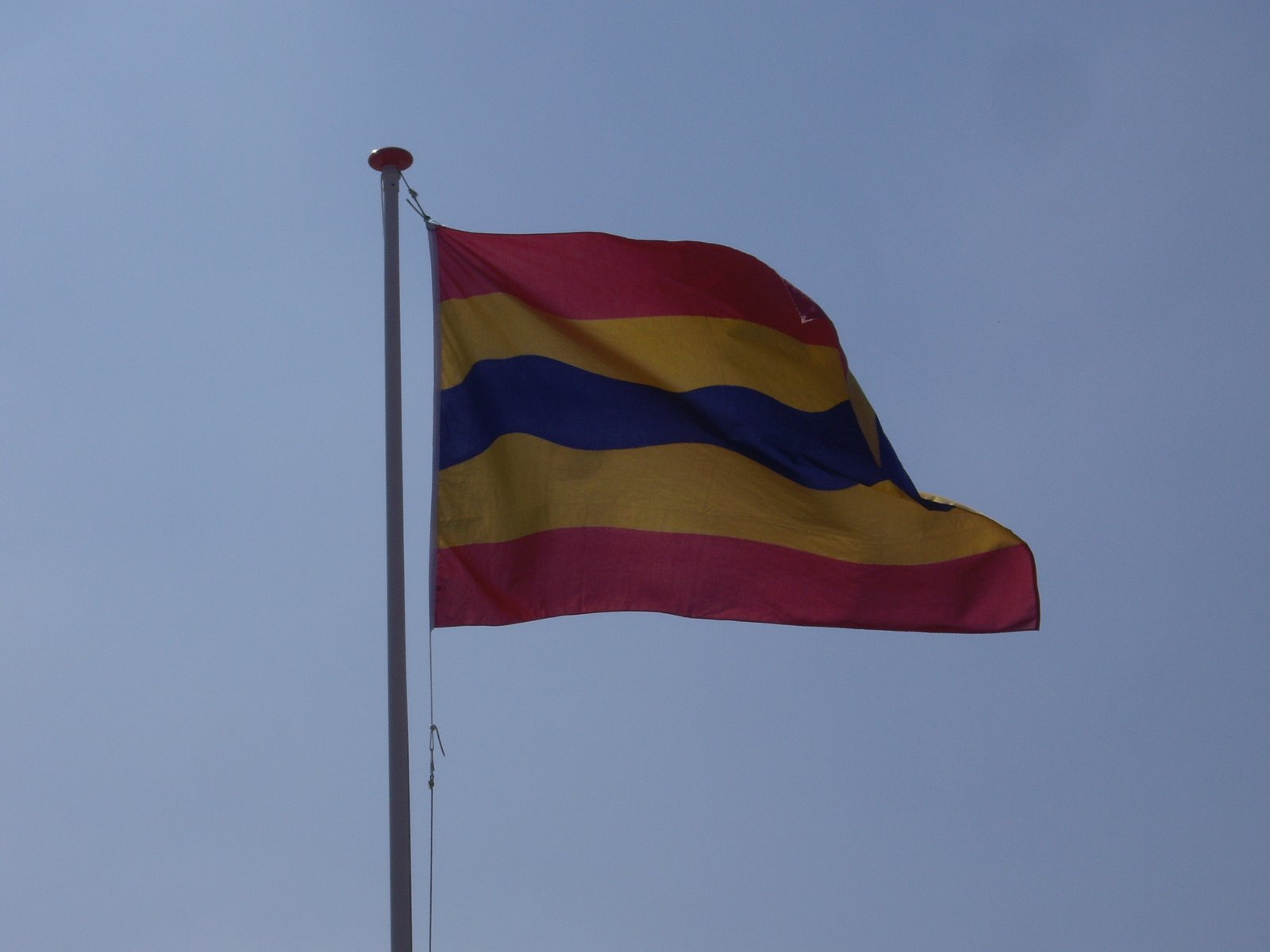 Flag of the Dutch province of Overijssel, flying in the wind.